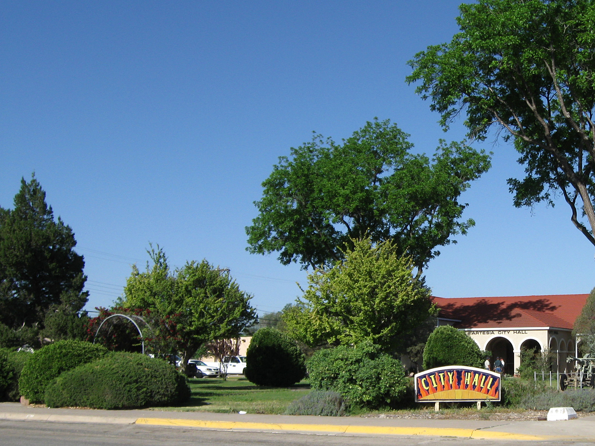 Artesia (New Mexico) City Hall, located at 511 West Texas Avenue.